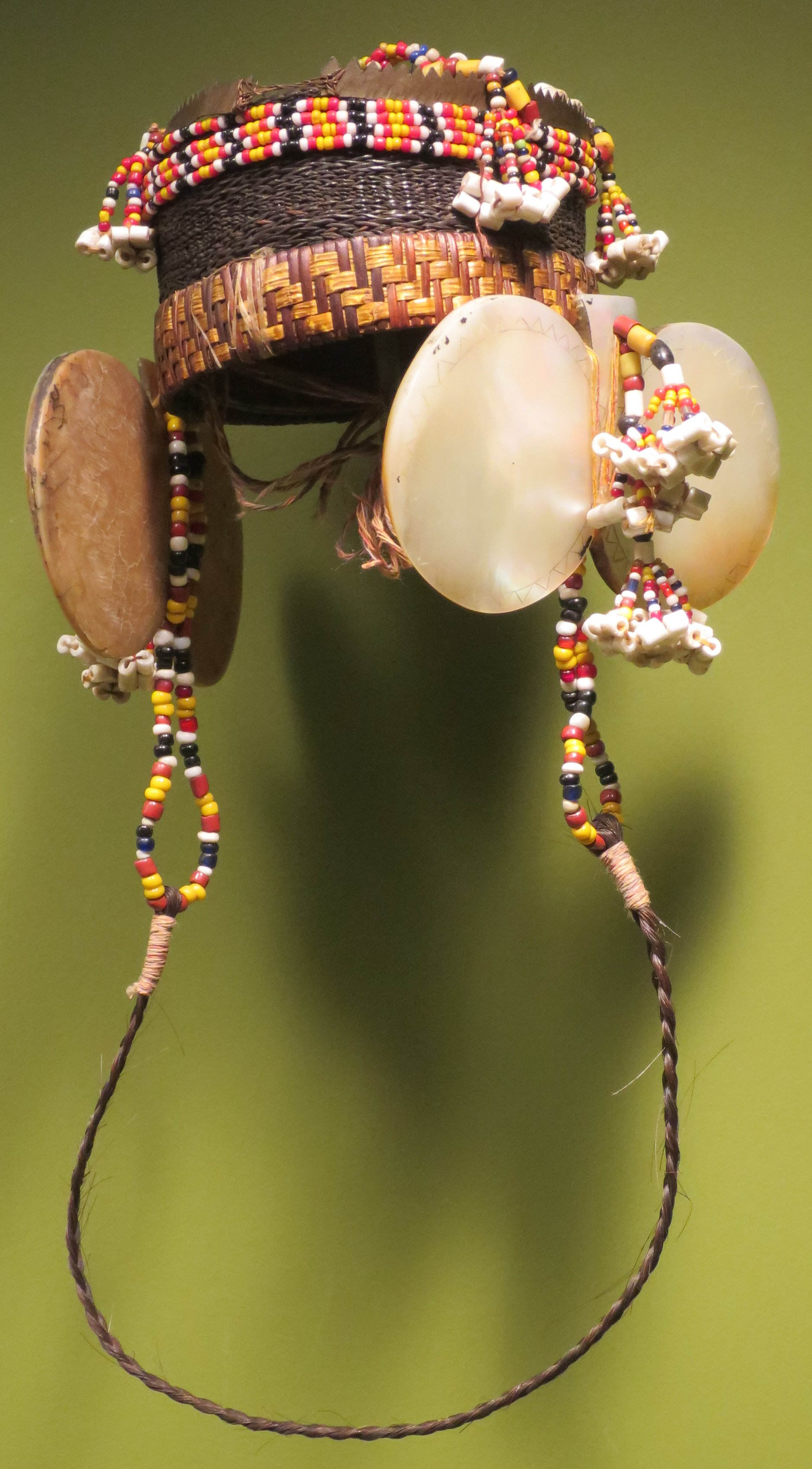 Hat from Gaddang in northern Luzon, the Philippines, wicker, beads, shells, brass, hair and yarn, Honolulu Museum of Art, accession 8393.1